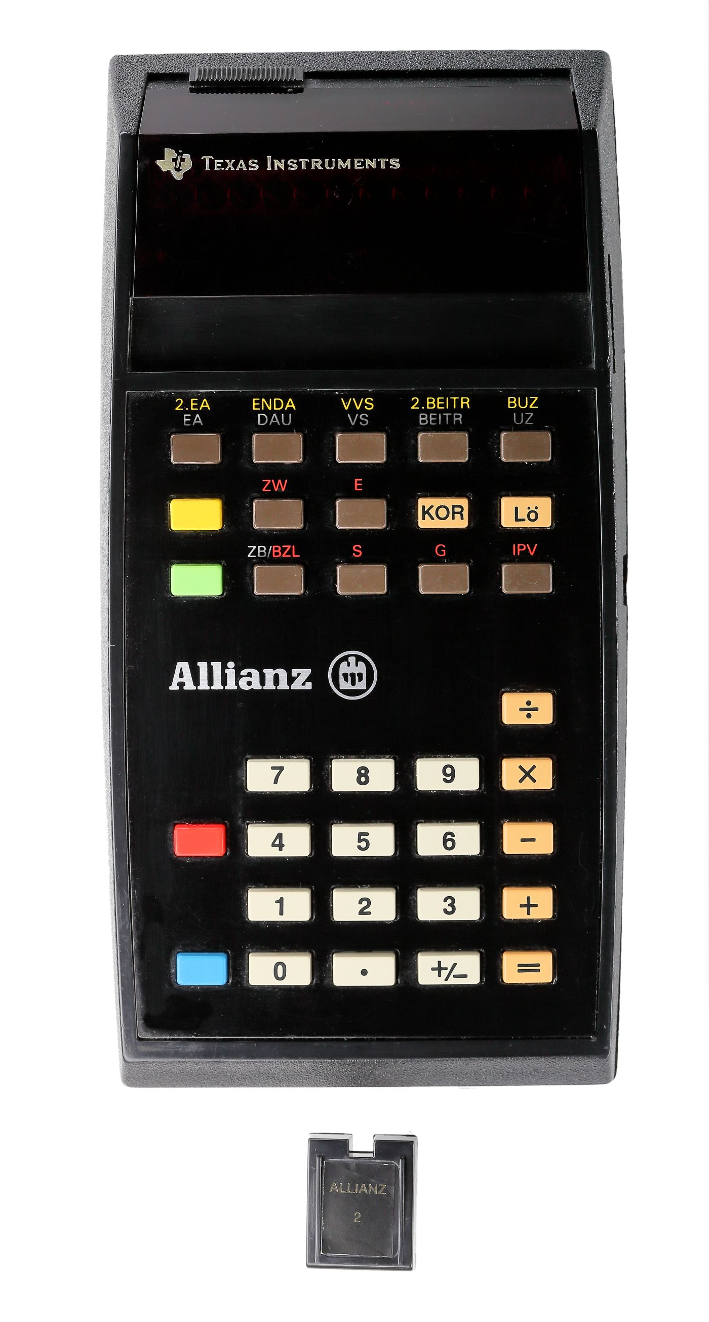 TI-58 and solid state module, customized for Allianz insurance. Date code ATA0183 = Manufactured in Abilane, Texas, cw 01 in 1983. Exhibit of Technikmuseum Diepholz-Heede, Germany